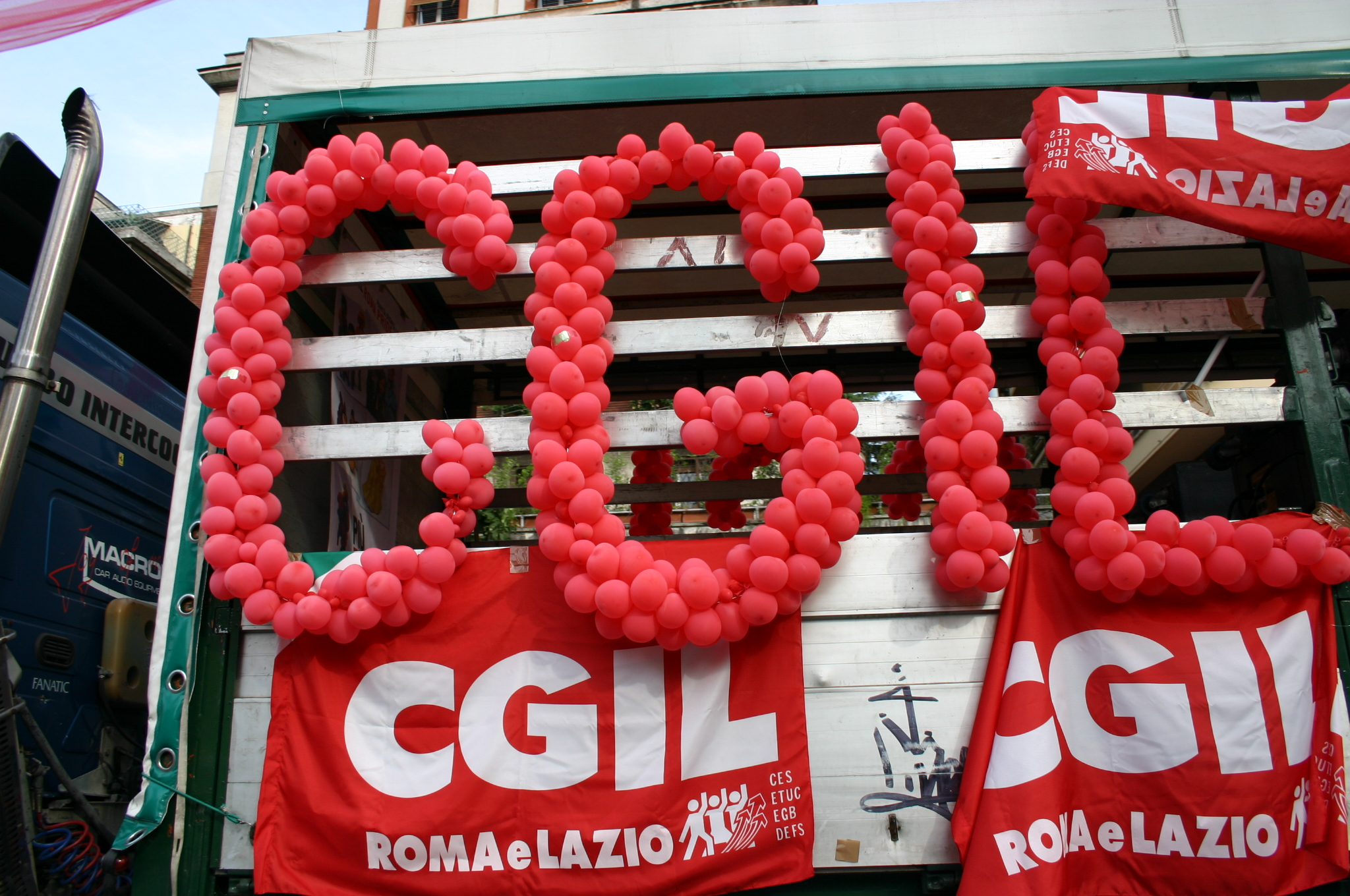 CGIL at the National Gay Pride march in Rome, on June 16 2007. Picture by Giovanni Dall'Orto.